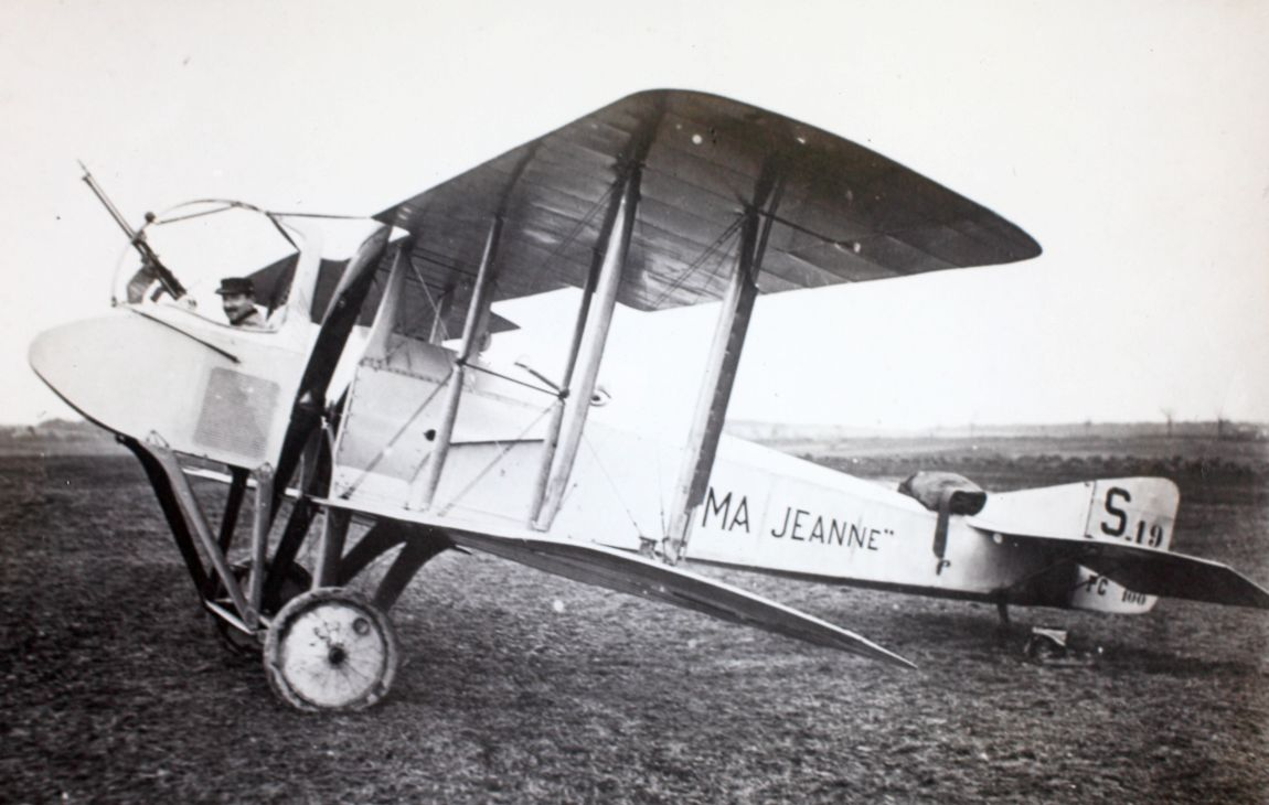 SPAD S.A-2 named Ma Jeanne